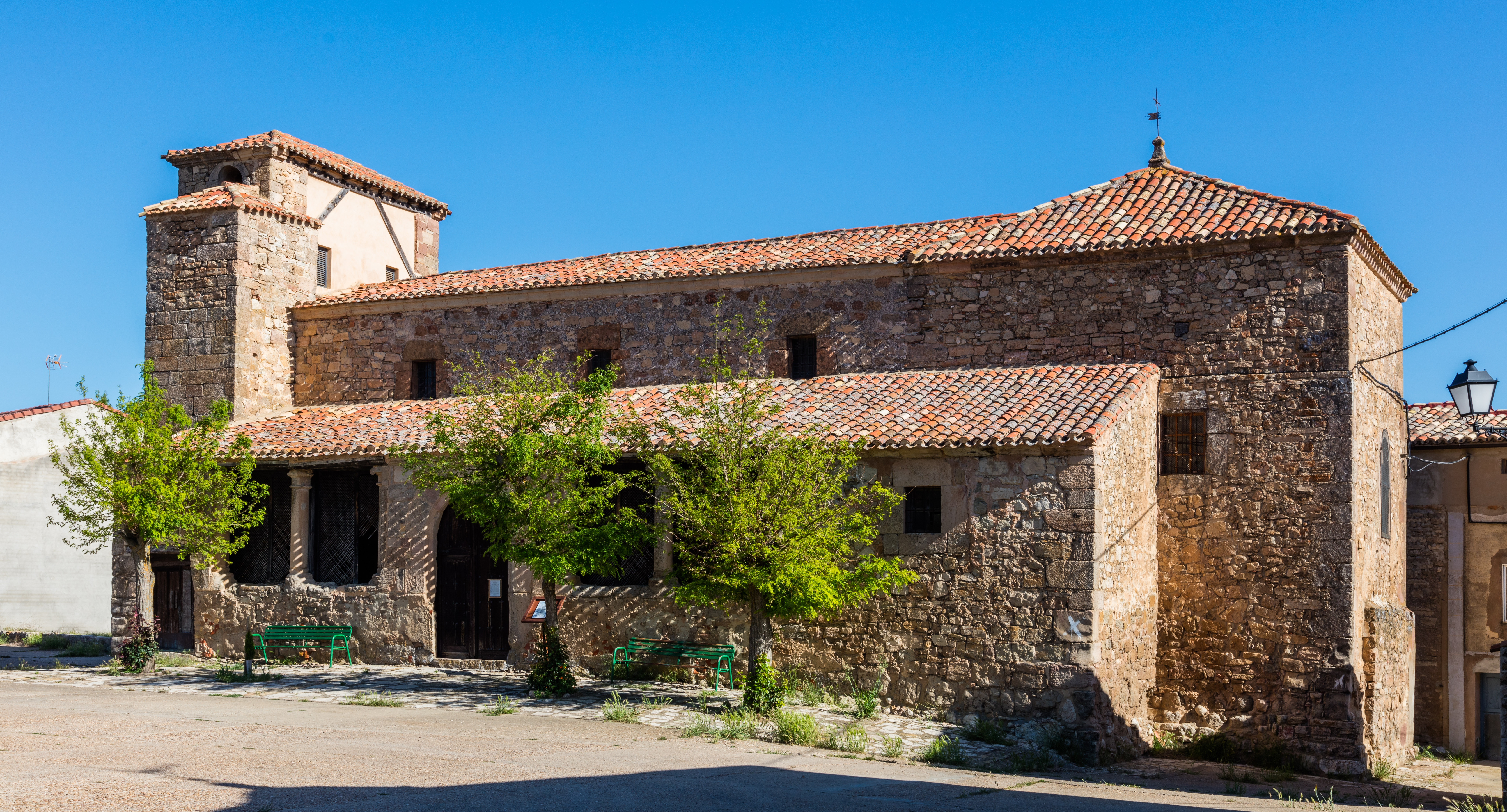 Church of the Assumption, Beltéjar, Soria, Spain